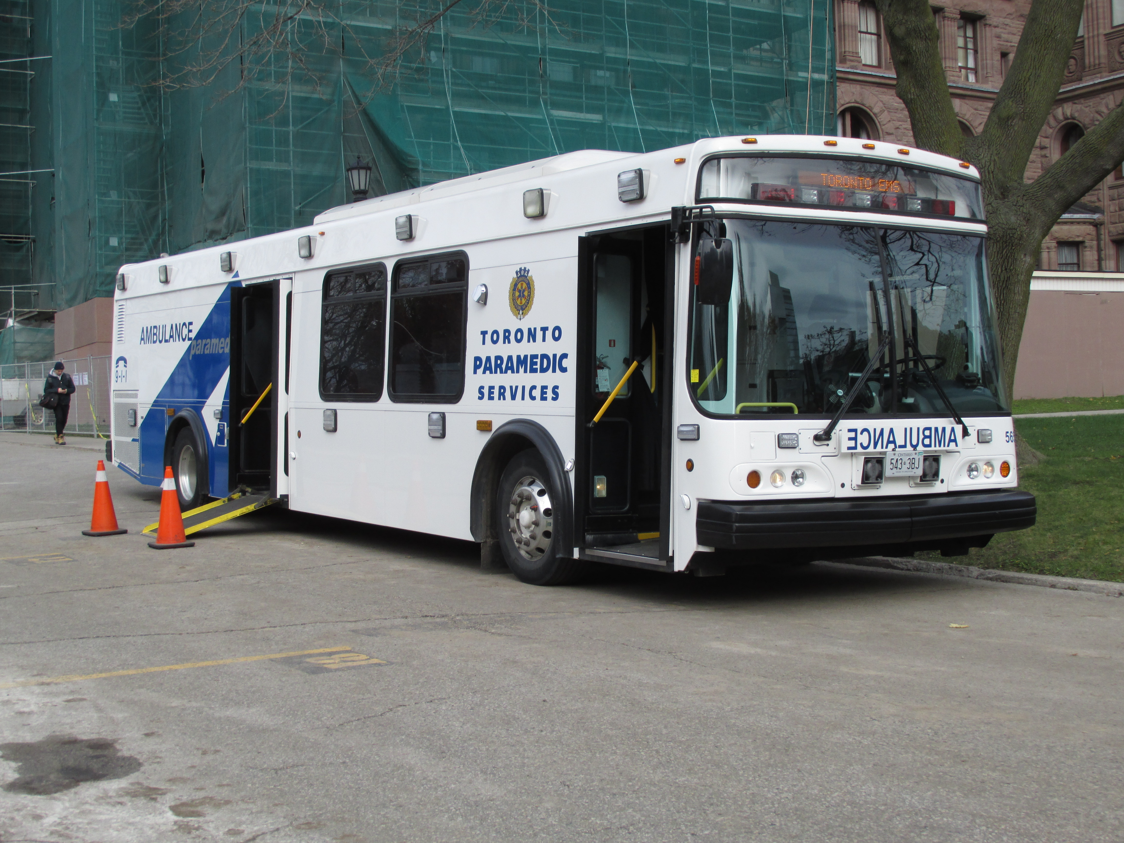 A Toronto Paramedic Services ElDorado National Axess ambulance, Ontario license plate 543 3BJ, outside of Queen's Park.